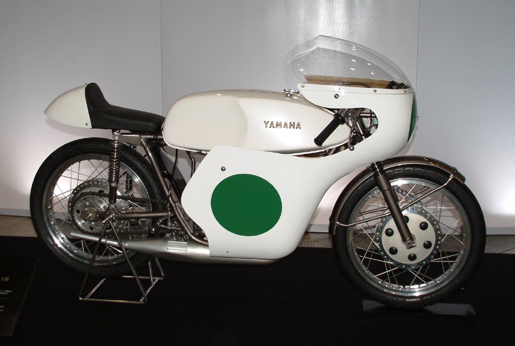 Yamaha TD-1B, 1966